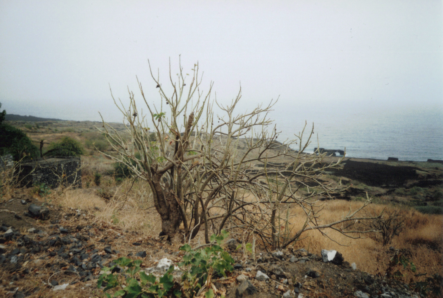 Jatropha bush, near Mosteiros, island of Fogo Fogo, Cabo Verde